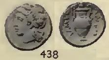 Greek coins and their parent cities (1902) Author: Ward, John, 1832-1912; Hill, George Francis, Sir, 1867-1948 Subject: Coins, Greek; Numismatics, Greek; Greece -- Description, geography; Italy -- Description and travel; Turkey -- Description and travel Publisher: London : Murray Possible copyright status: NOT_IN_COPYRIGHT Language: English Call number: AKB-0671 Digitizing sponsor: MSN Book contributor: Robarts - University of Toronto Collection: toronto Scanfactors: 7